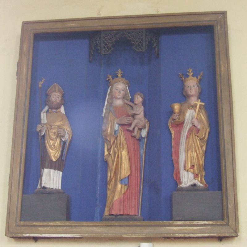 Village Church in Reckahn, historic altar figures from Meßdunk